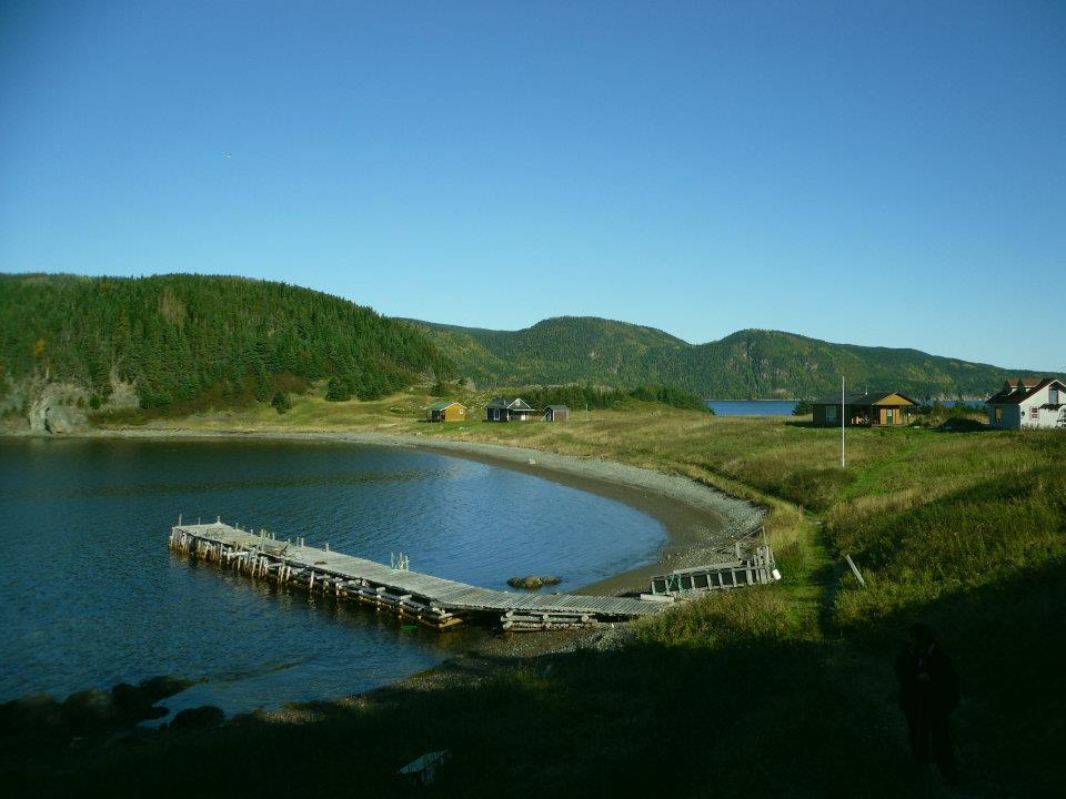 Houses on Sops Island